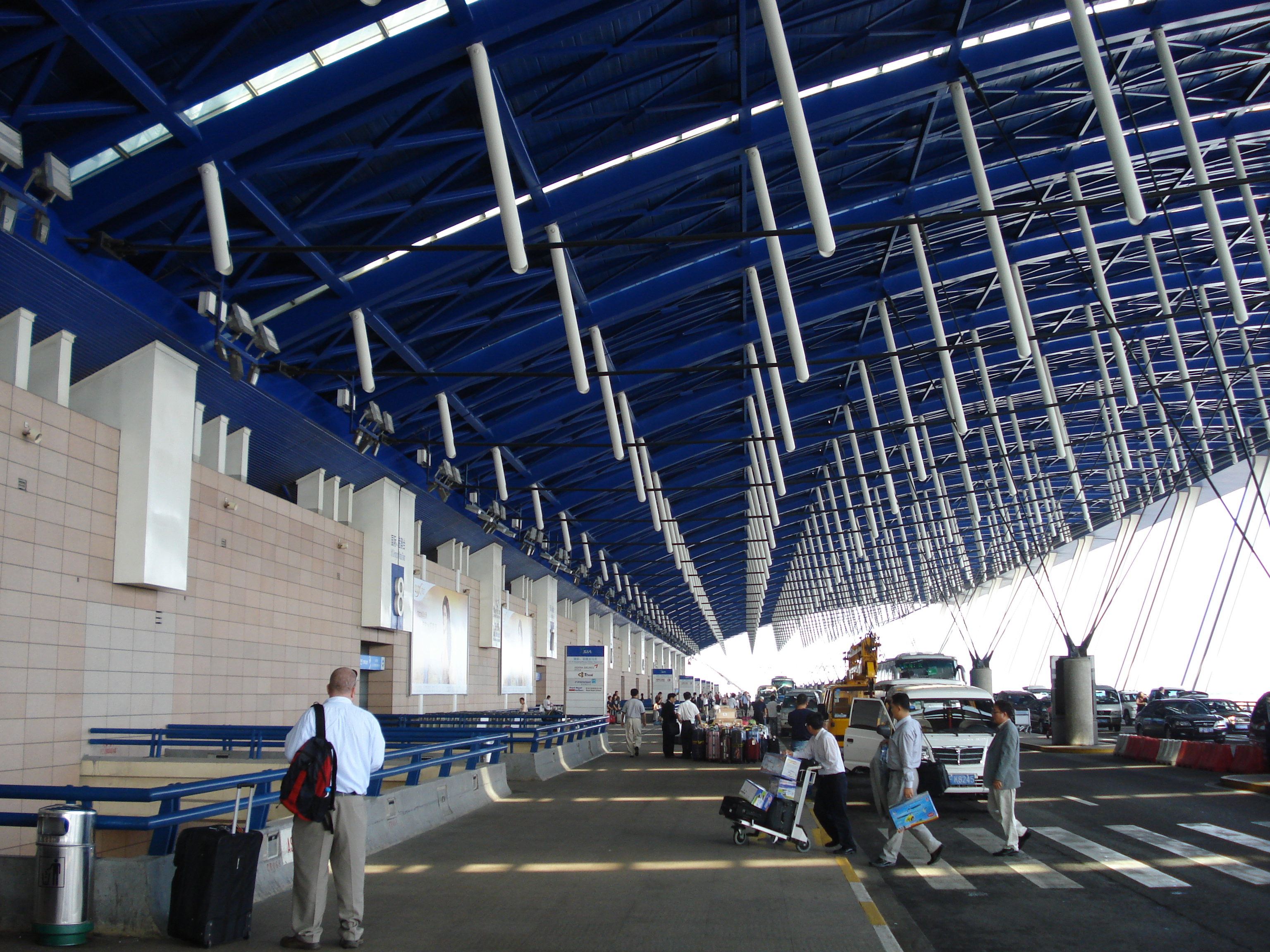 Shanghai Pudong International Airport